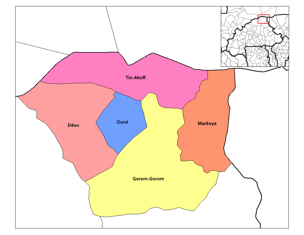 This map has been uploaded by Osiris fancy from to enable the Wikimedia Atlas of the World. Original uploader to was Rarelibra. Osiris fancy is not the creator of this map. Licensing information is below. Map of the departments of Oudalan province in Burkina Faso. Created by Rarelibra 03:32, 30 September 2006 (UTC) for public domain use, using MapInfo Professional v8.5 and various mapping resources.